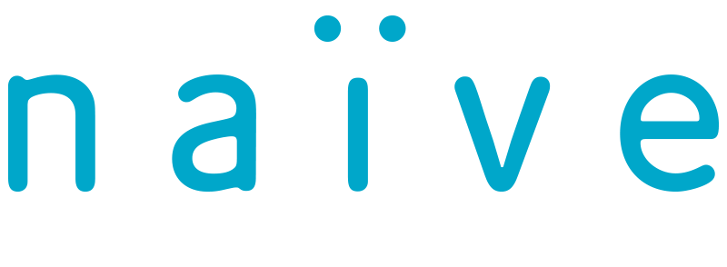 Logo of Naïve Records.